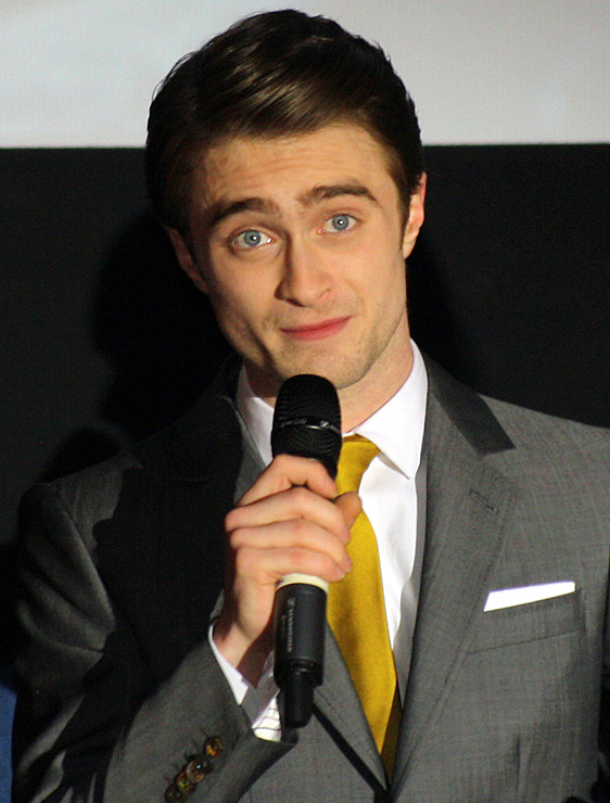 Daniel Radcliffe at the Dame en Noir 2012.